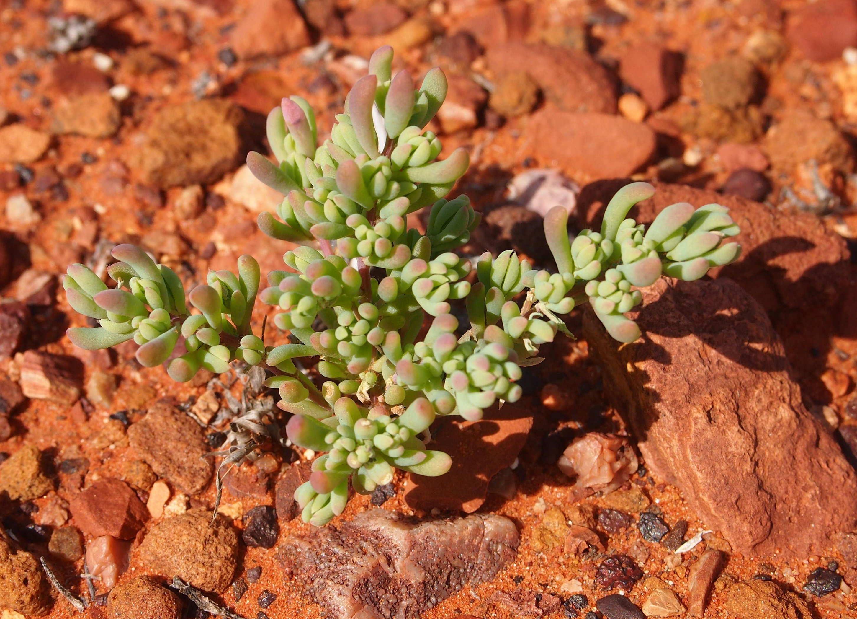 Osteocarpum dipterocarpum habit